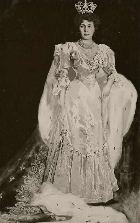 Victoria Eugenie of Battenberg